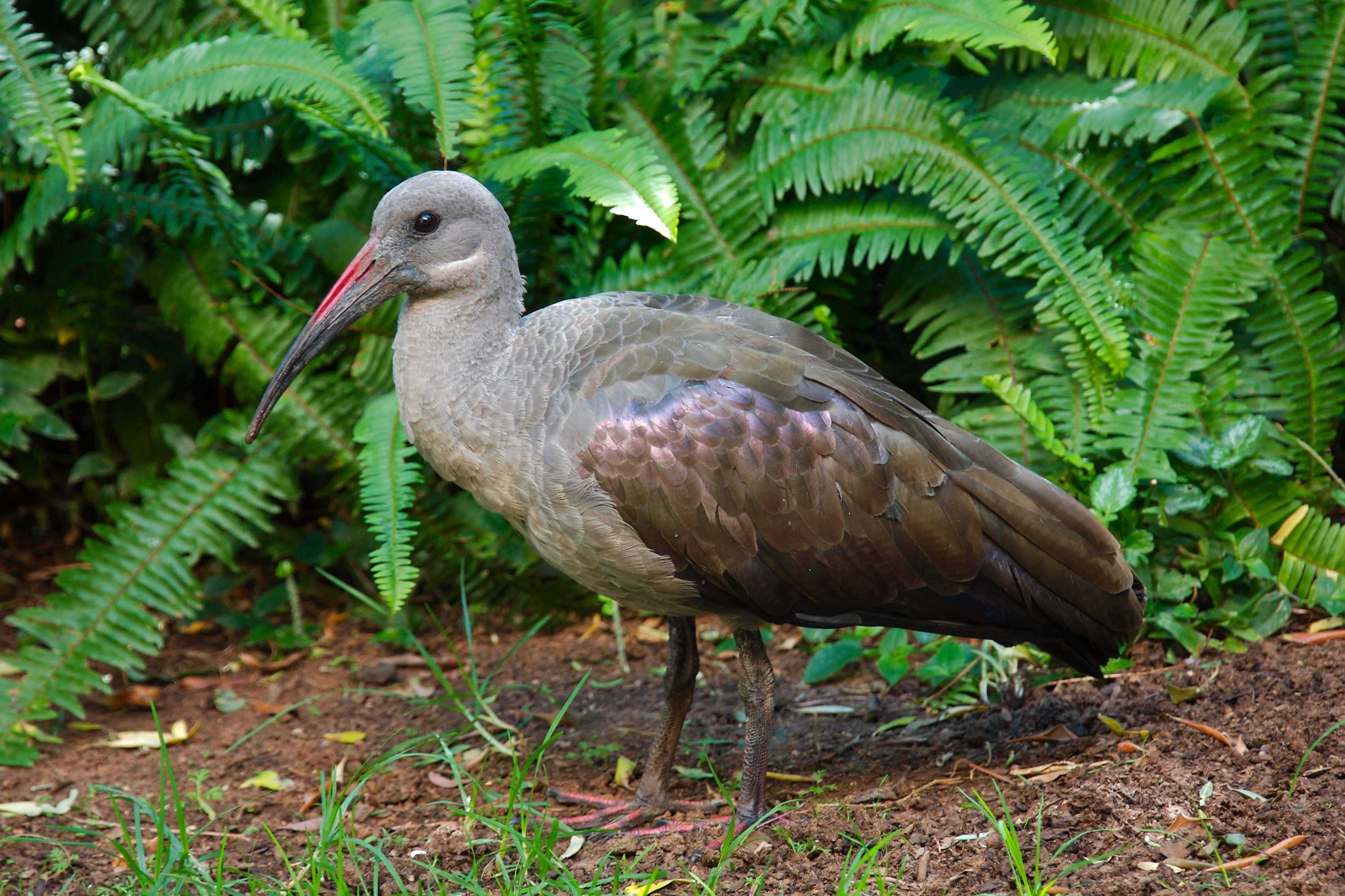 A Hadada_Ibis foraging for food in a small garden in Rivonia, Johannesburg. Photographed by User:Dawidl